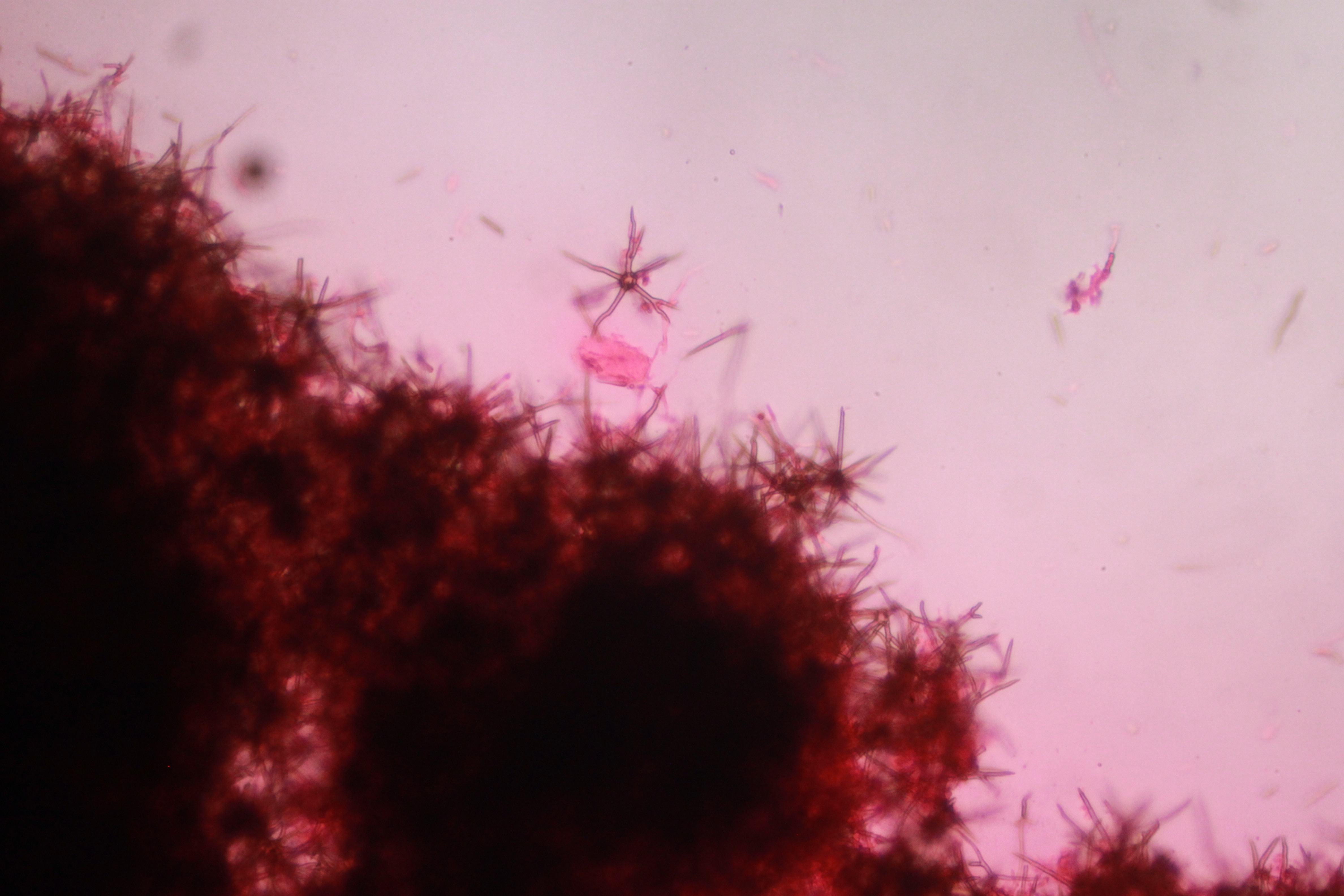 Asterostroma cervicolor Image location: Ann Arbor, Michigan, USA Found under the bathroom floor boards of a rented house by Gavin Taylor and mailed to John Taylor. Did not see many spores, but the ones I did see were a bit small for the species ~3-4 um, and were tuberculate. Used references: Lachnocladiaceae and Coniophoraceae of Northern Europe Based on microscopic features: Presence of asterosetae for the genus, small tuberculate spores for the species For more information about this, see the observation page at Mushroom Observer.